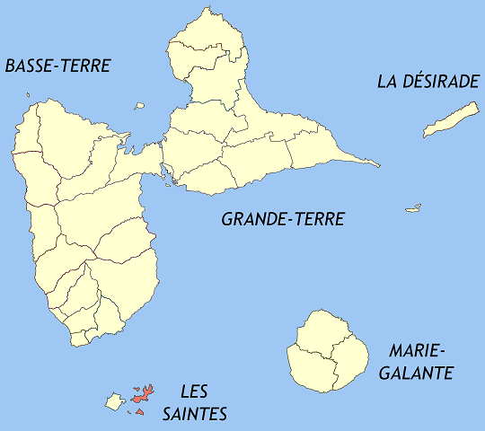 Location of Terre-de-Haut within Guadeloupe